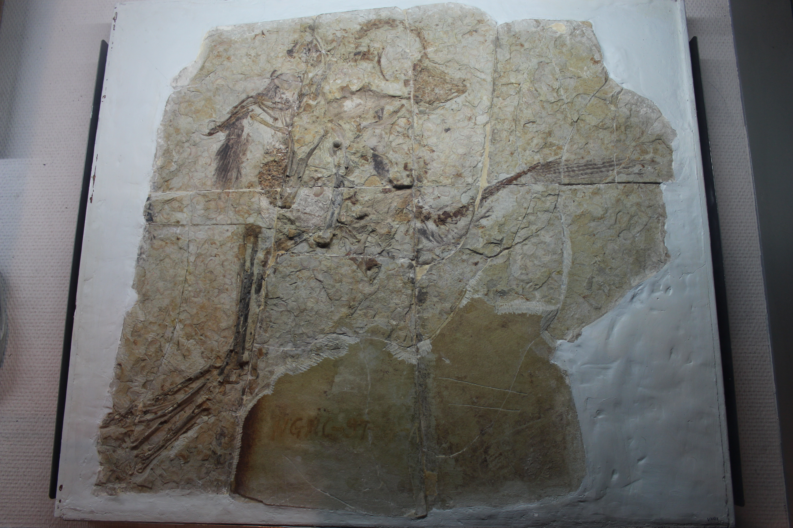 Holotype of Caudipteryx zoui on display at the Geological Museum of China.